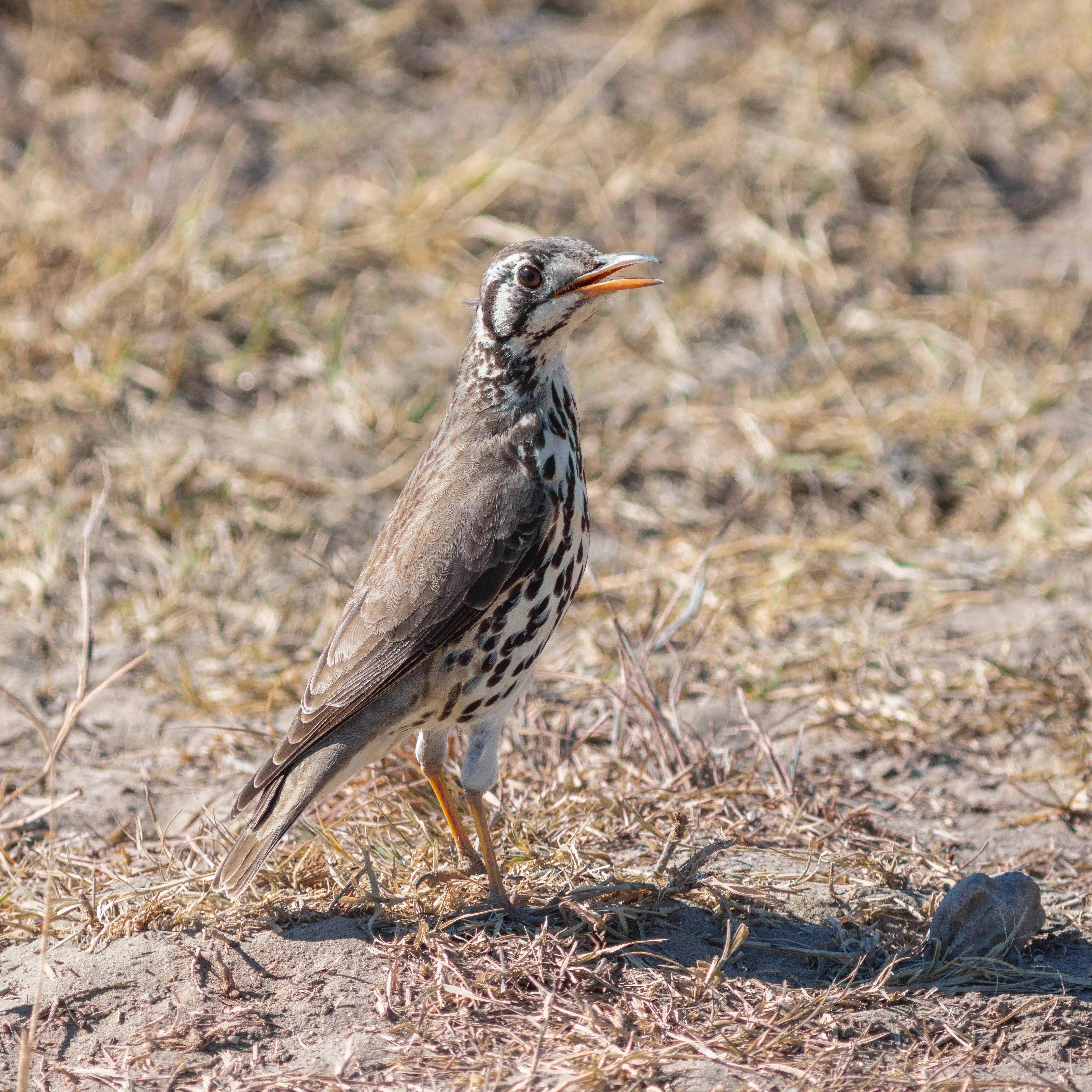 Exemplar of Groundscraper thrush (Turdus litsitsirupa), Khama Rhino Sanctuary, Botswana.